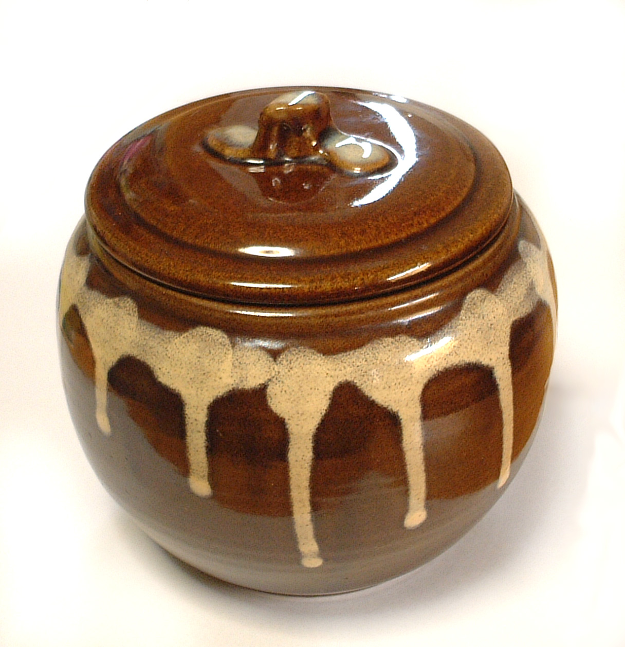 Jar of Tokoname-Yaki. Photo taken in Japan.